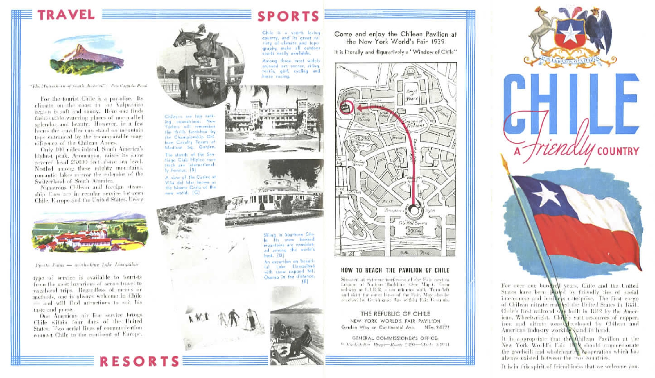 Chilean pamphlet promoting tourism during the Good Neighbor era